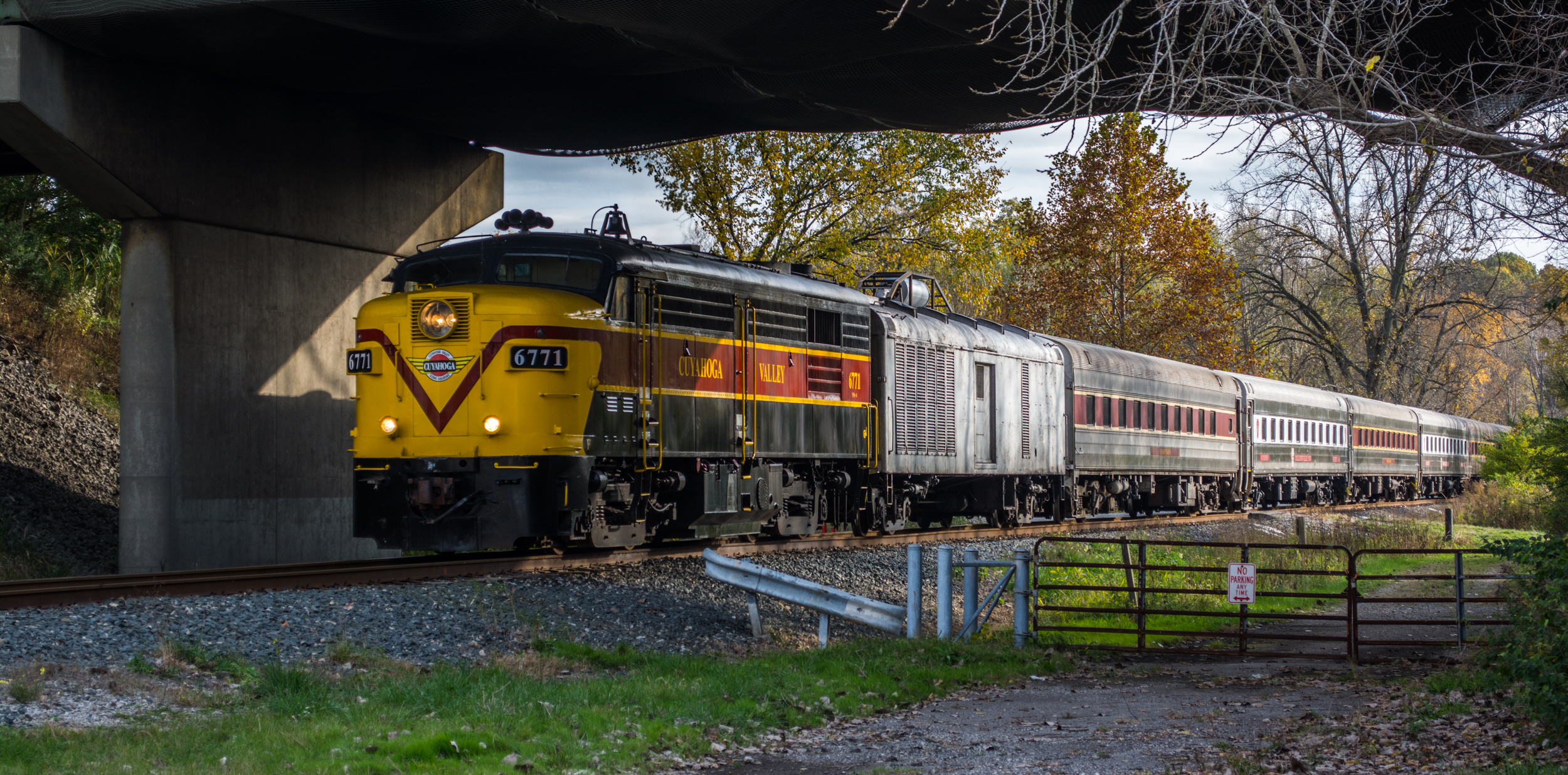 A Cuyahoga Valley Scenic Railroad train idles at the northern end of the line near Rockside Road in Independence, Ohio, in the United States on November 4, 2017.